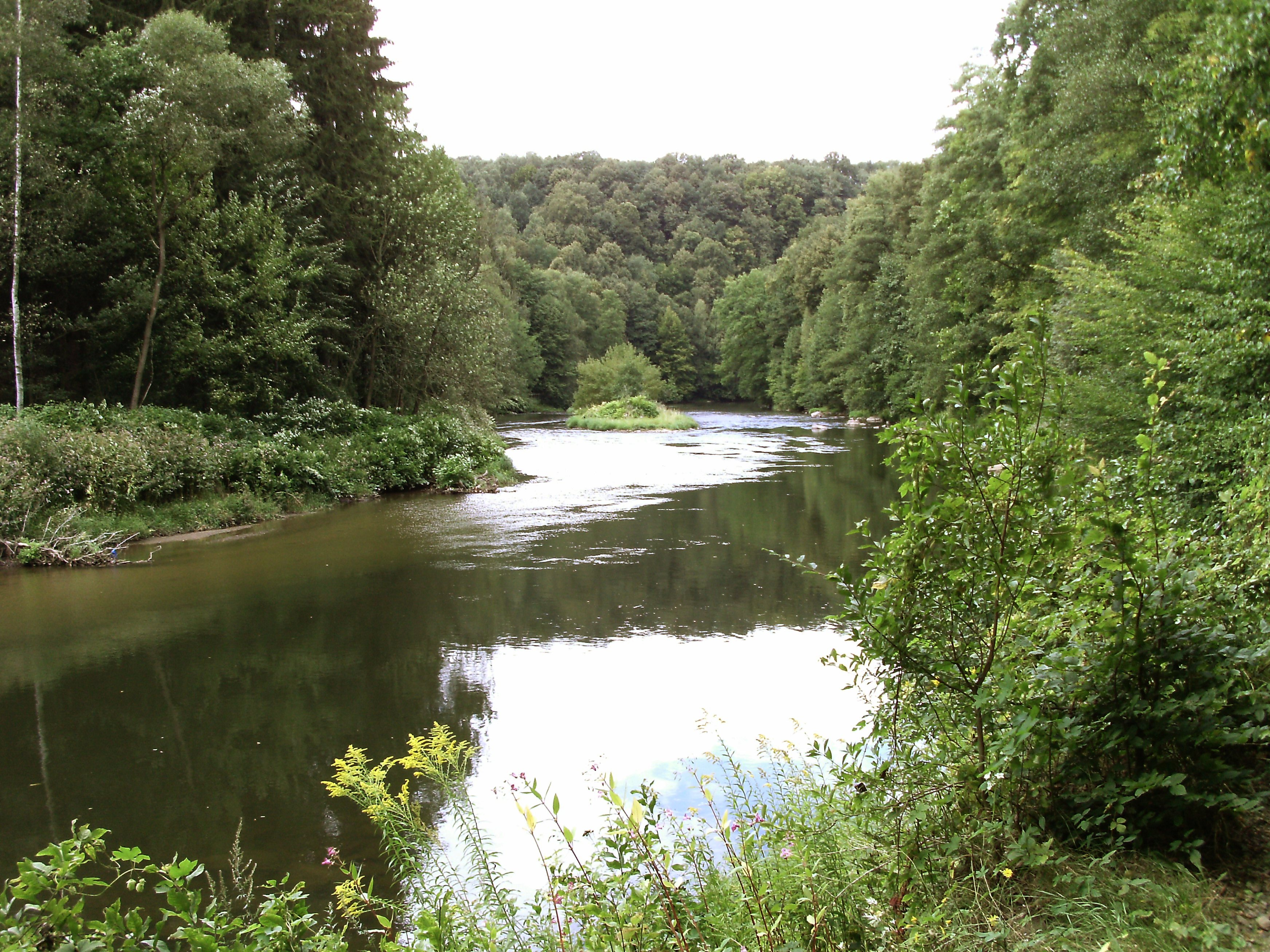 Zwickauer Mulde river above Rochsburg (Lunzenau, Mittelsachsen district, Saxony)